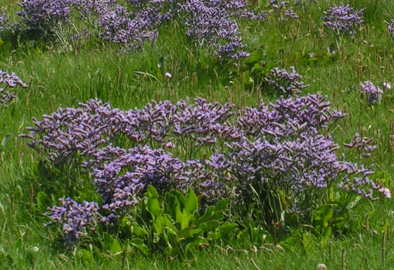 in the salt marsh at german waddensea national park